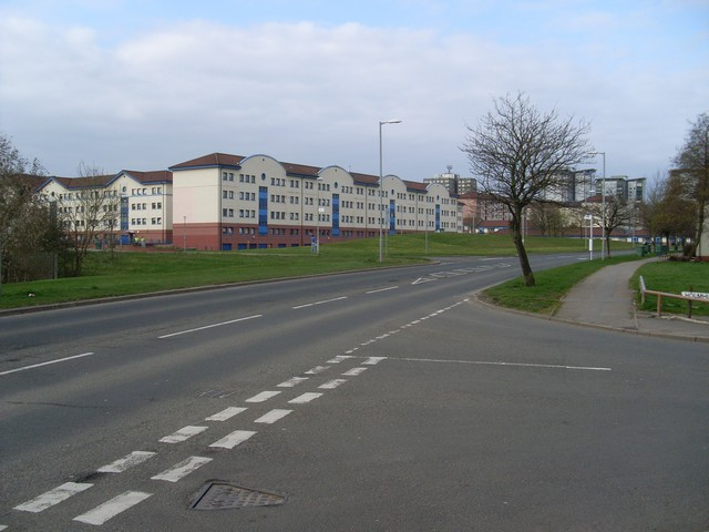 Lorne Terrace, Whitlawburn From Western Road.